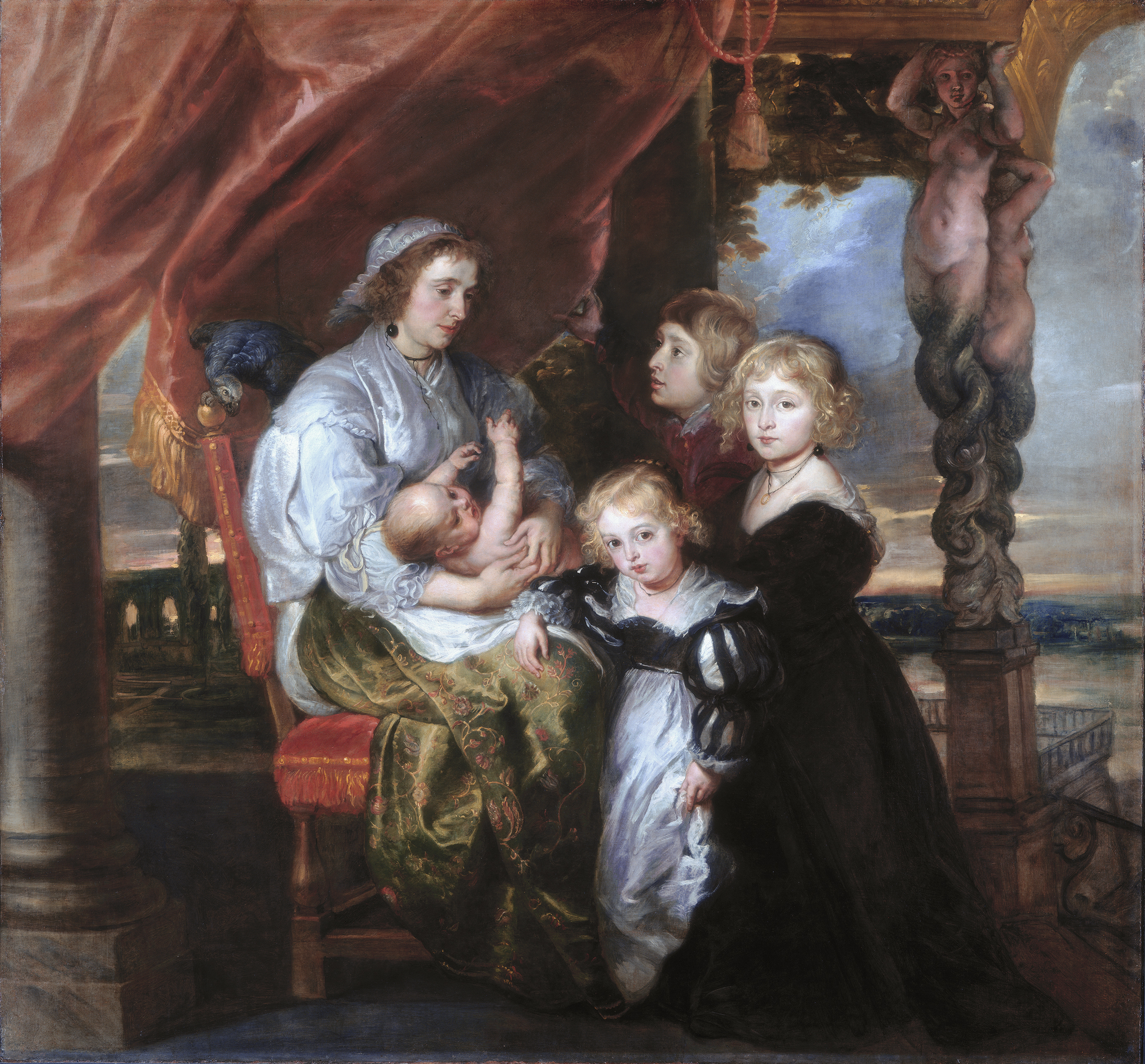 Deborah Kip, wife of Sir Balthasar Gerbier, and her children oil on canvas 165.8 x 177.8 cm 1629-1630 reworked probably mid 1640s